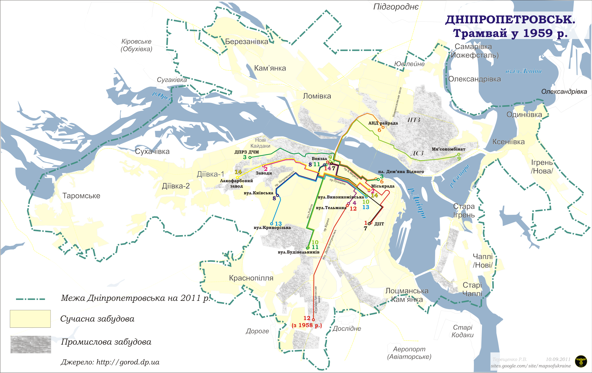 Scheme of tram routes in the city of Dnepropetrovsk in 1959.